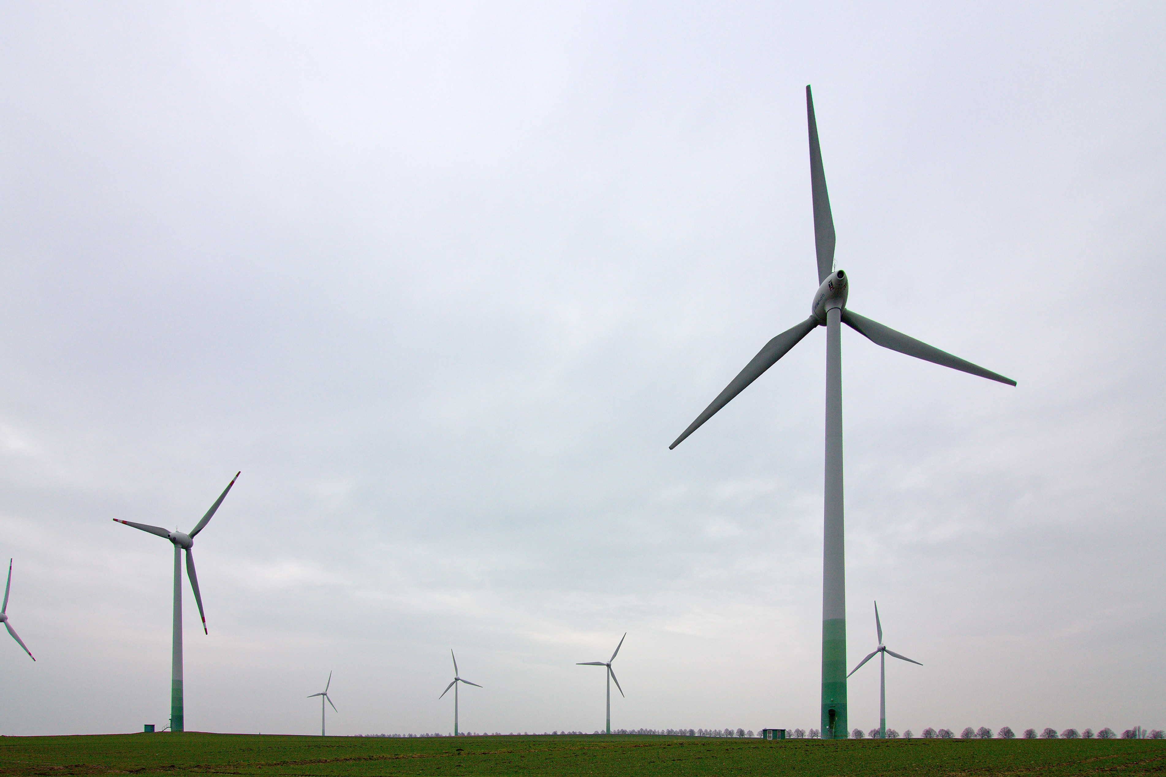 Der Windpark Meerberg in Ingeln-Oesselse (Laatzen) wird seit 1995 betrieben.